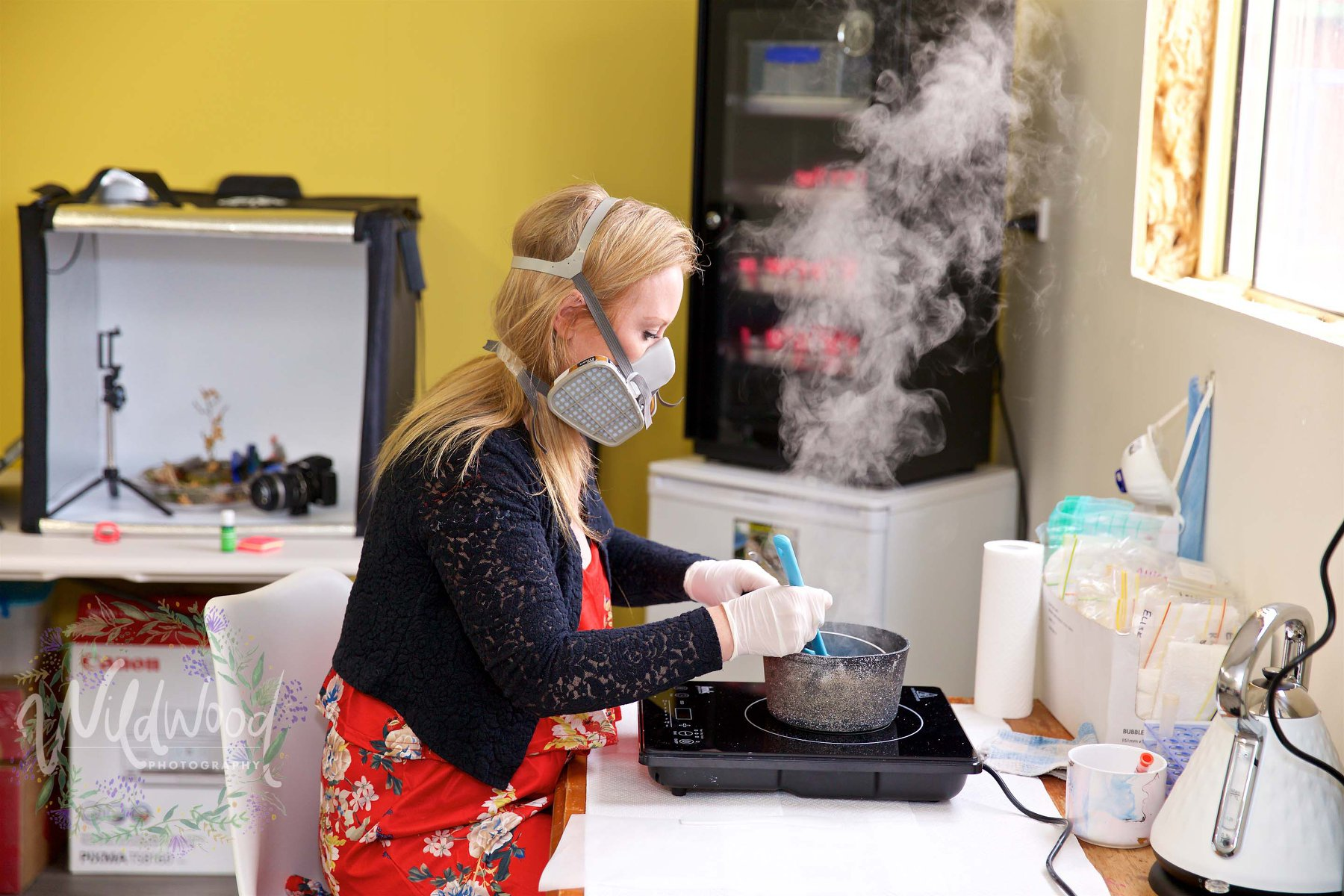 Artist Cindy Hobbs working in her studio on preserving breastmilk.